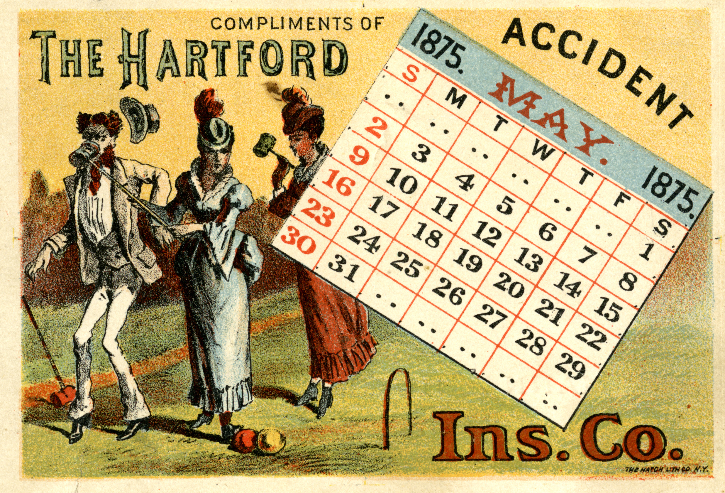 Description: Advertisement for the Hartford Accident Insurance Company written on the verso. Creator: Unknown Date Created: 1875 Source: Original Format: University of British Columbia. Library. Rare Books and Special Collections. Arkley Croquet Collection. Permanent URL: Project website